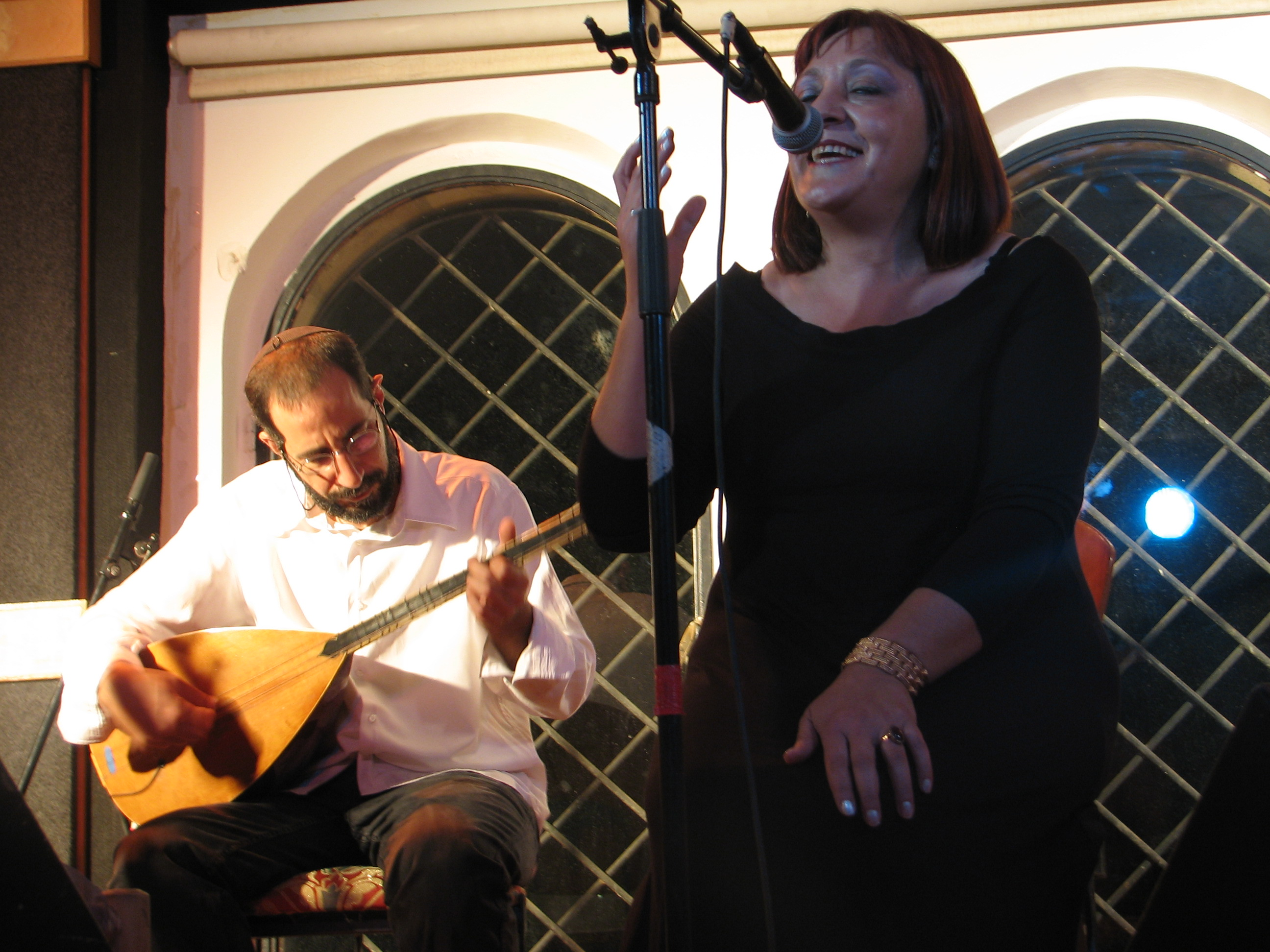 Jerusalem, Israel singer and musician of Kurdish roots, Ilana Eliya, on stage with her band, summer '08.